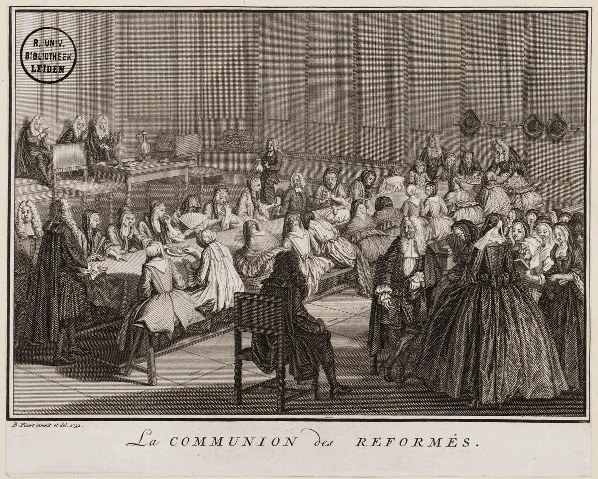 Engraving of communion in a Reformed church from Cérémonies et coutumes religieuses de tous les peuples du monde by Bernard Picart